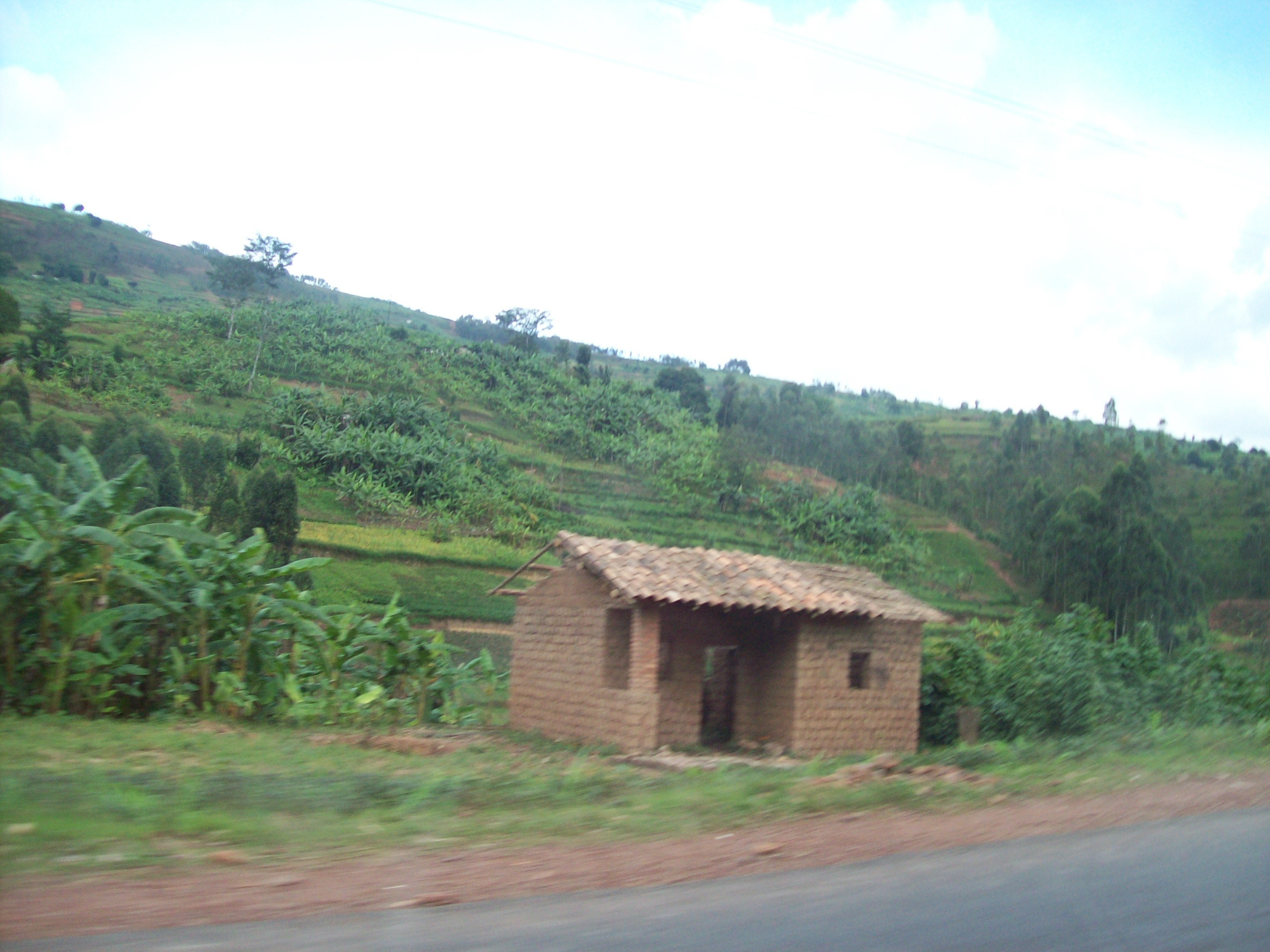 House in the West Province, Rwanda